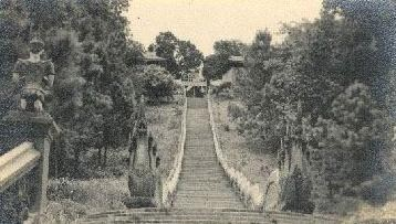 Doi Suthep 1910-1920, see Wat Phrathat Doi Suthep, used at Thai article at วัดพระธาตุดอยสุเทพราชวรวิหาร